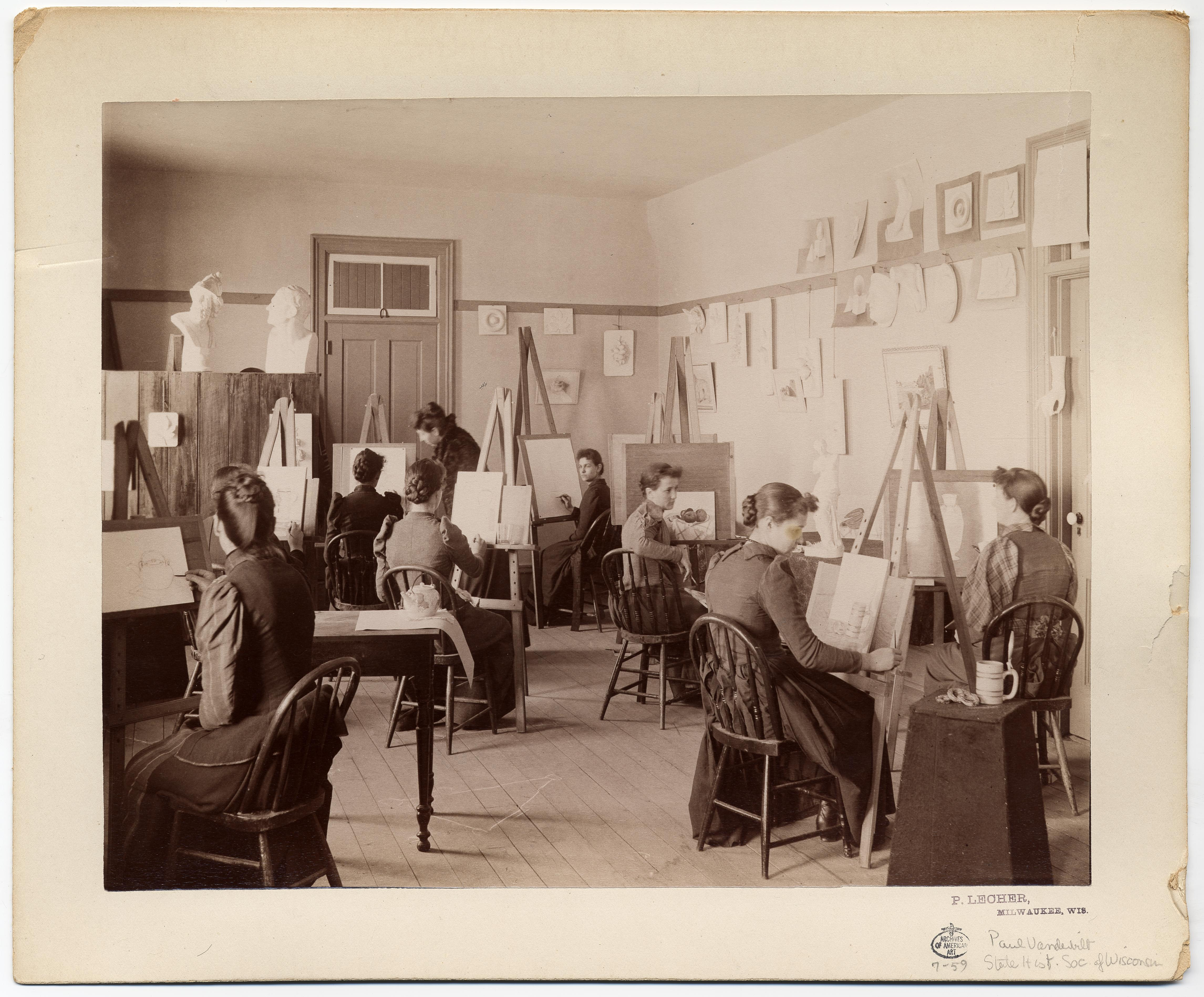 Woman art students sketching; annotated "at the State School for the Deaf, Delavan, Wisconsin."